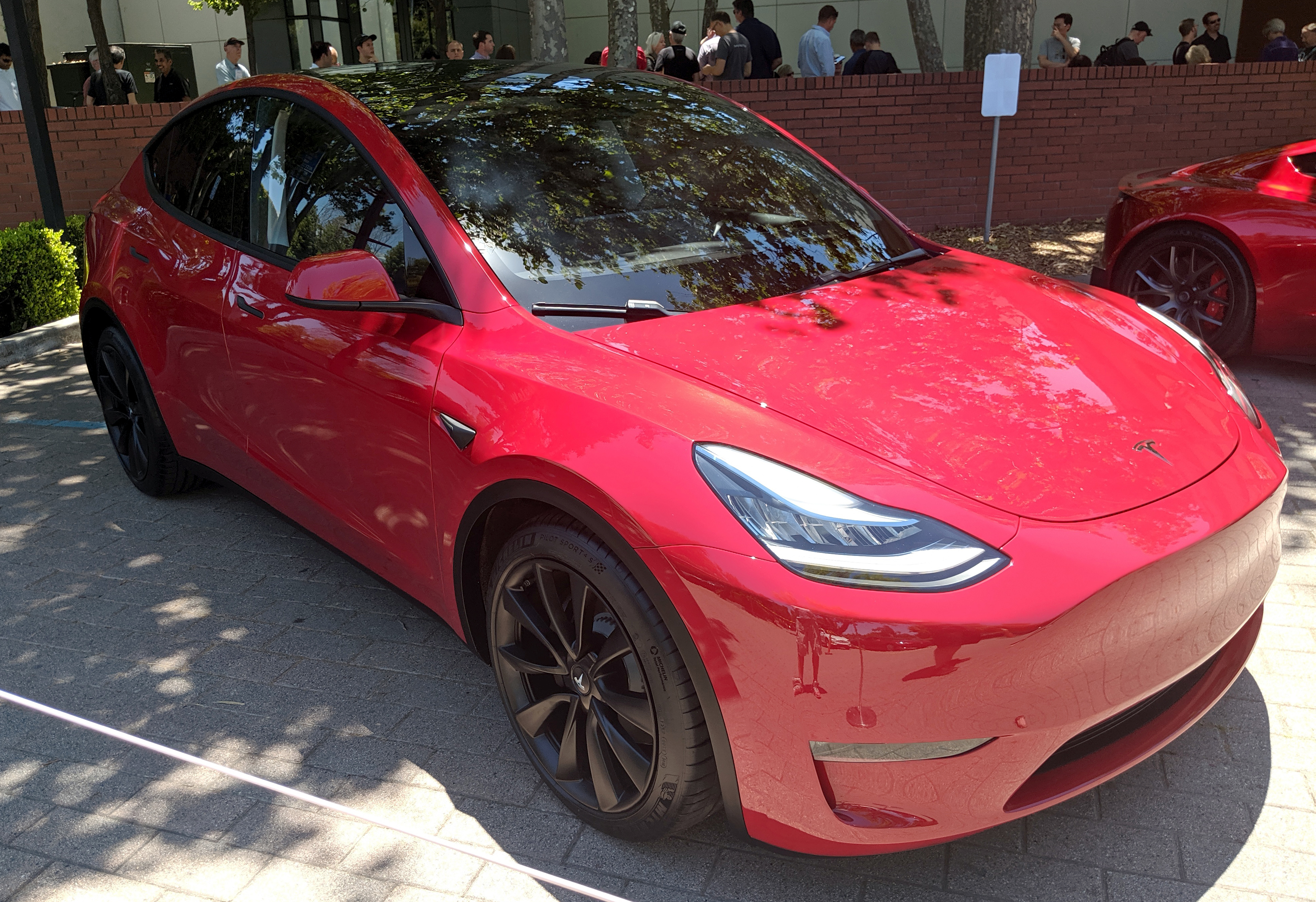 Tesla Model Y front passenger side view, taken at investor conference